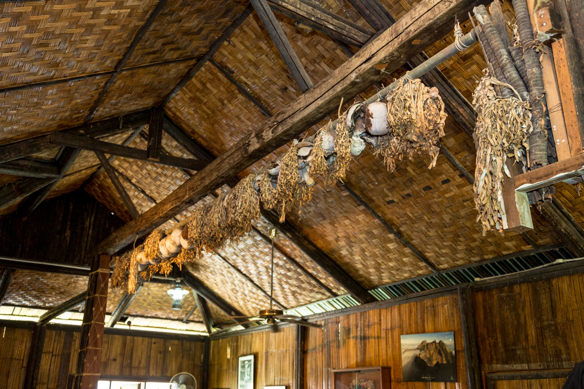 Kg. Kuai Kandazon, Penampang, Sabah: Monsopiad House of Skulls; par tof the Monsopiad Cultural Village